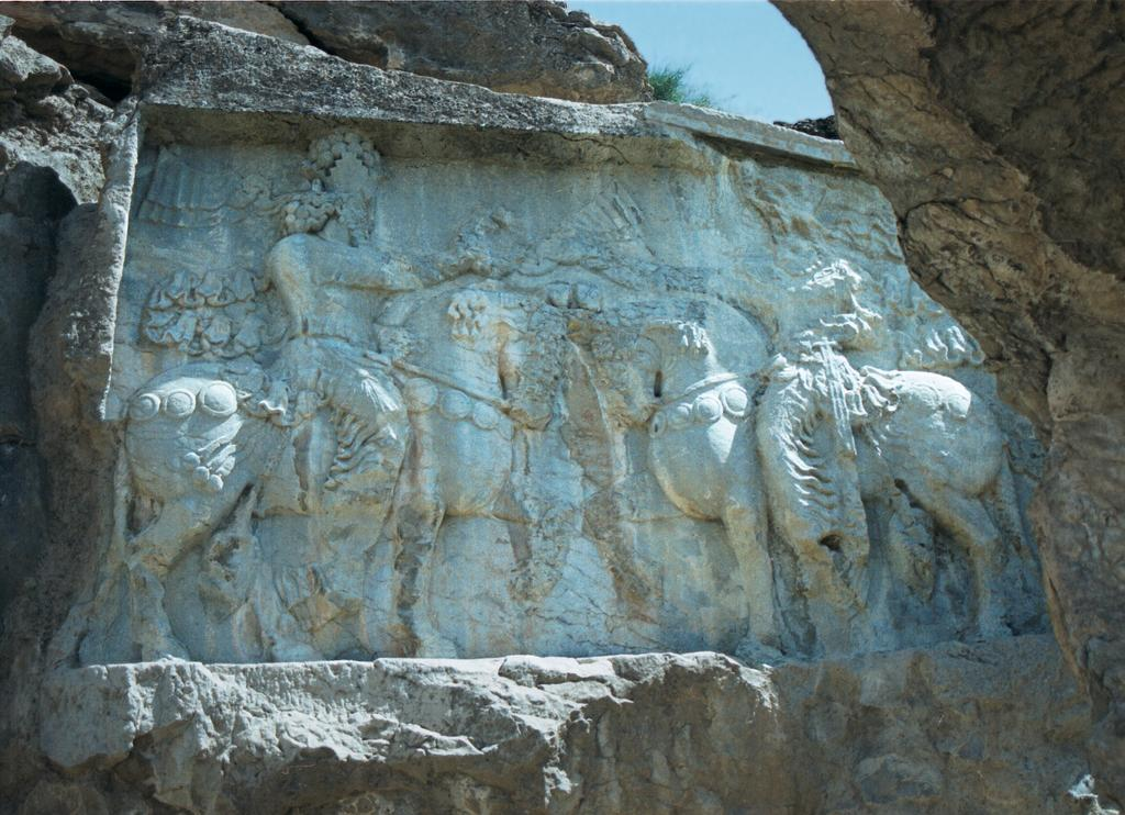 Sassanid relief at Naqsh-e Rajab, Fars, Iran ; 3rd century CE. Relief showing the investiture of Shapur I (right) receiving the ring of power and the diadem for the god Ahura Mazda (left).